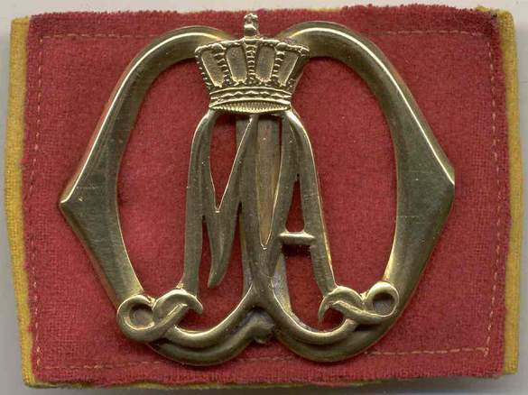 Baret Badge KMA first model 1947